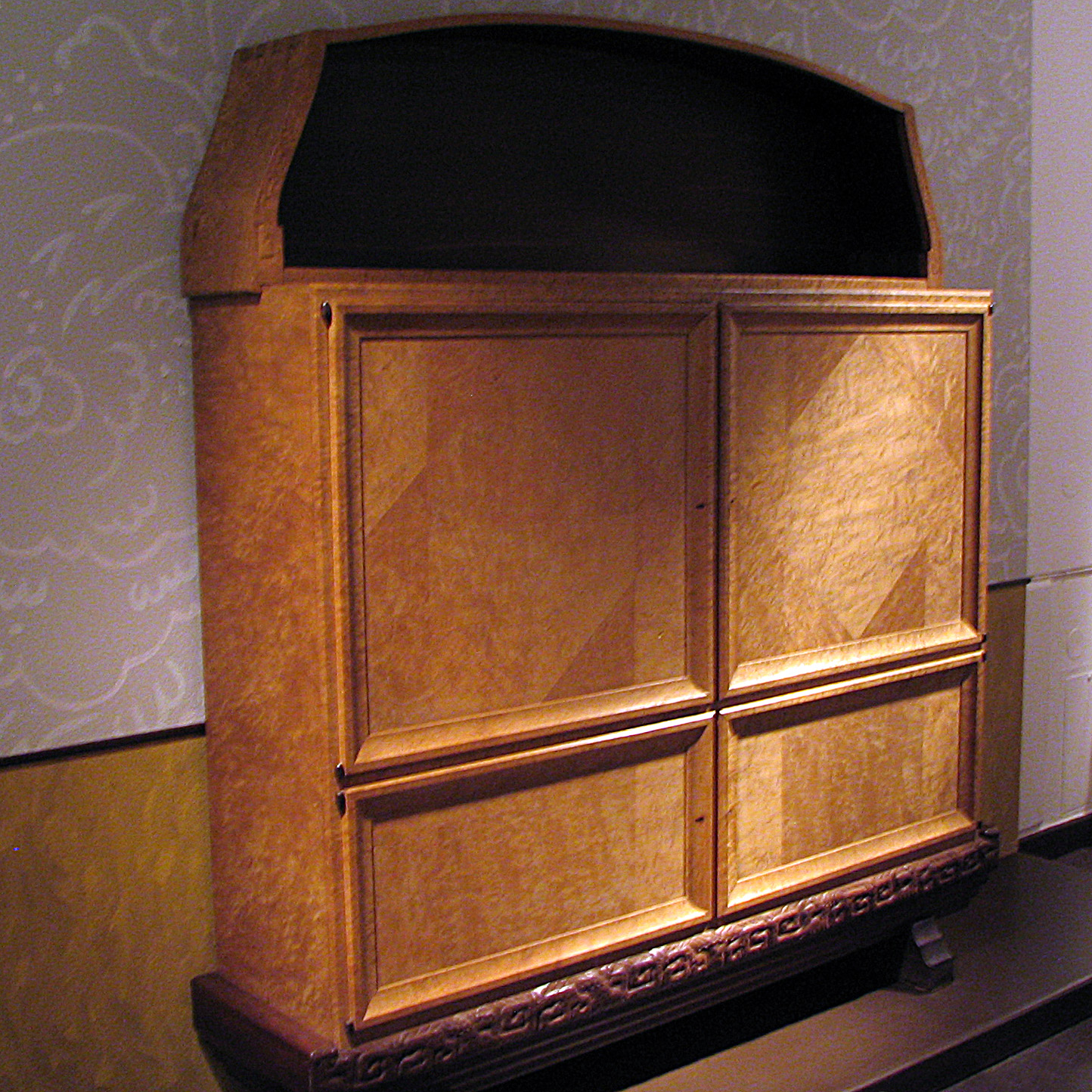 Wardrobe (Malmö konstmuseum)